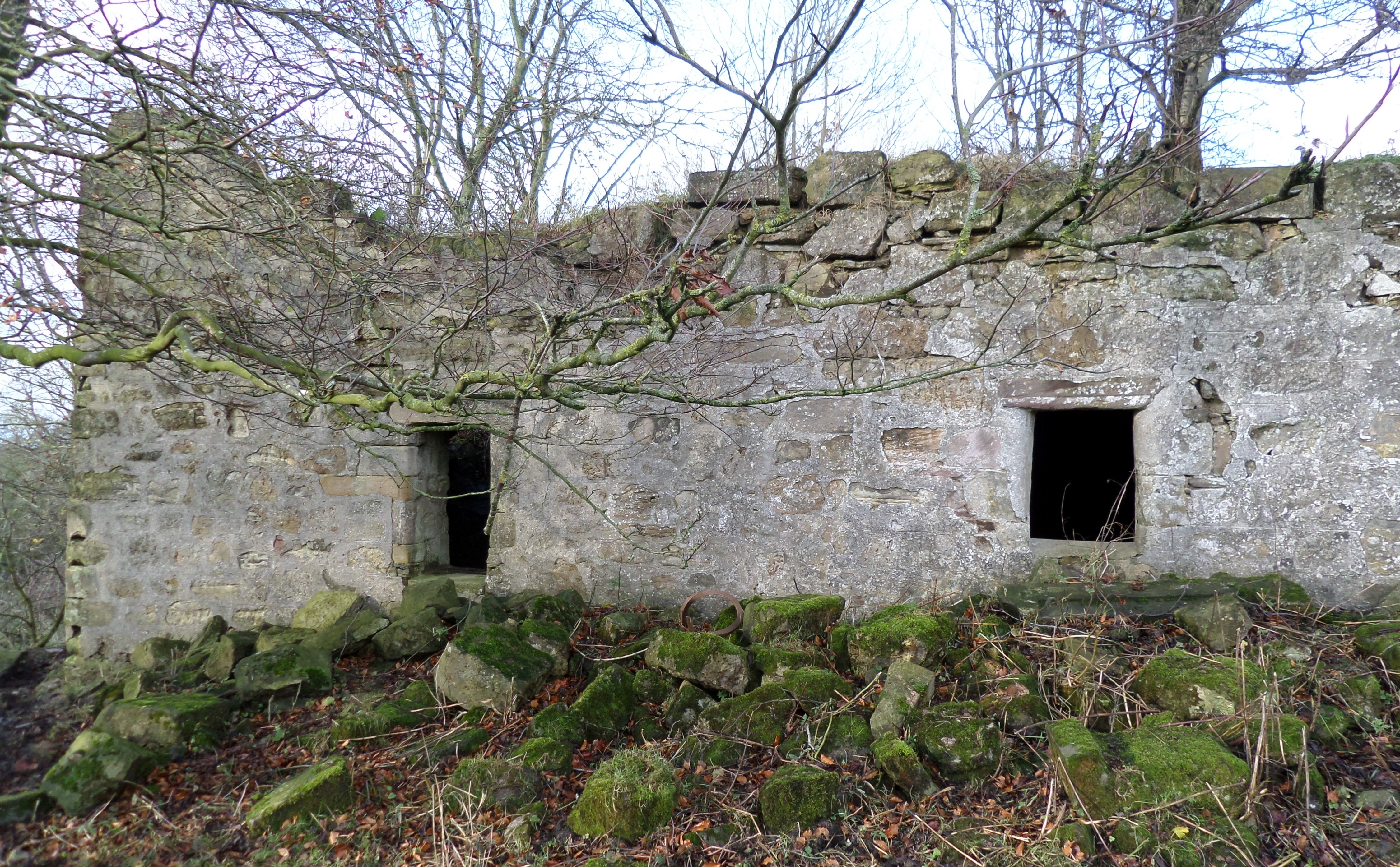 Haining Place, the east facing aspect and southern end with original windows. Hurlford, East Ayrshire, Scotland.